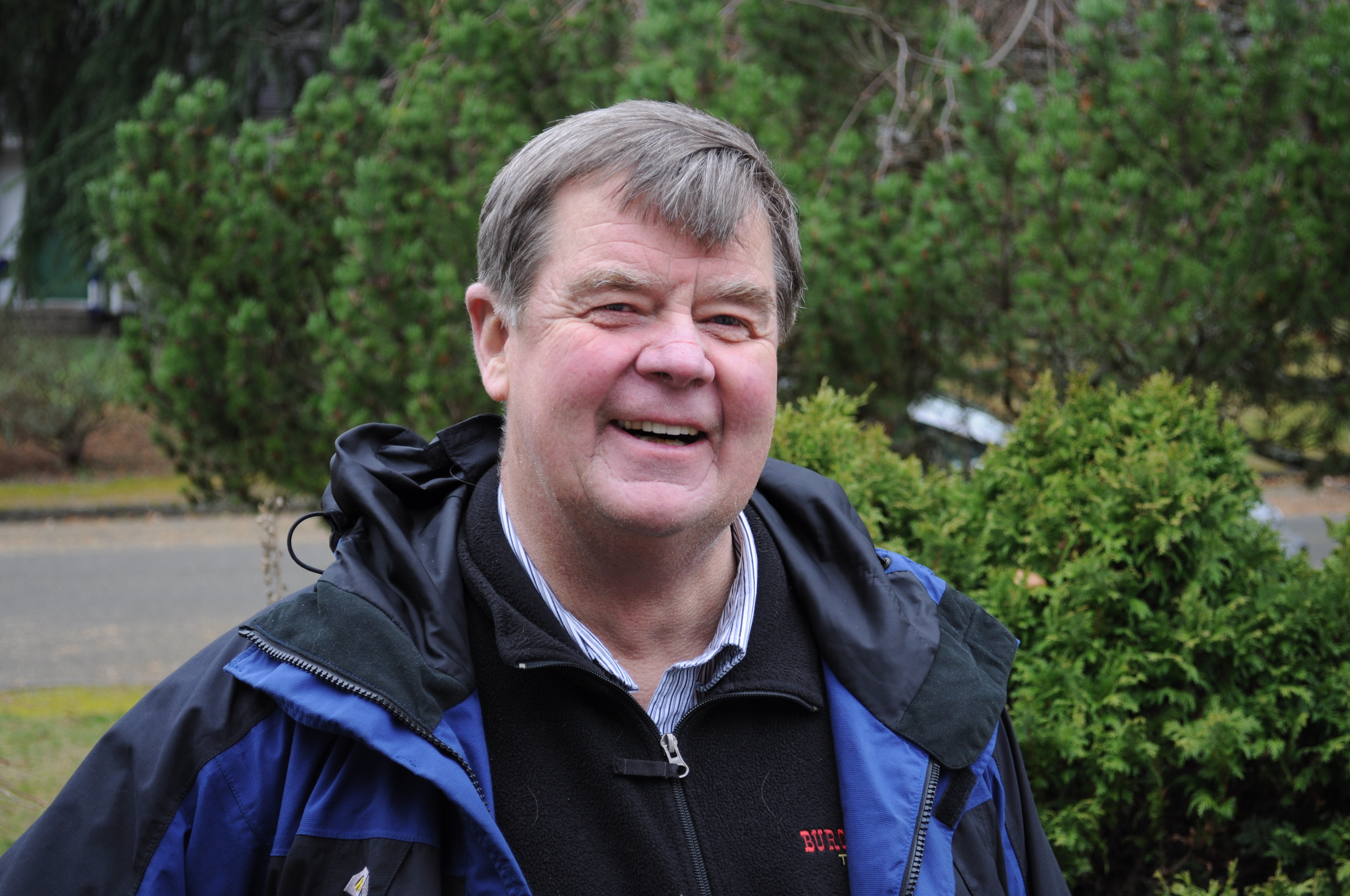 Washington State 46th District Senator Ken Jacobsen.